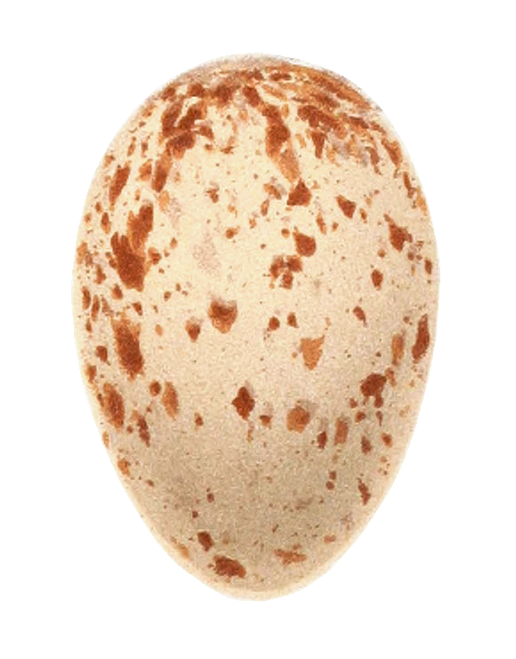 Egg of Crex crex